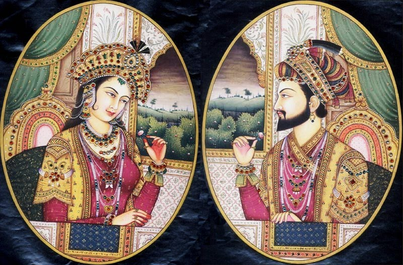 Mugahl emperor Shah Jahan and his empress Mumtaz Mahal.